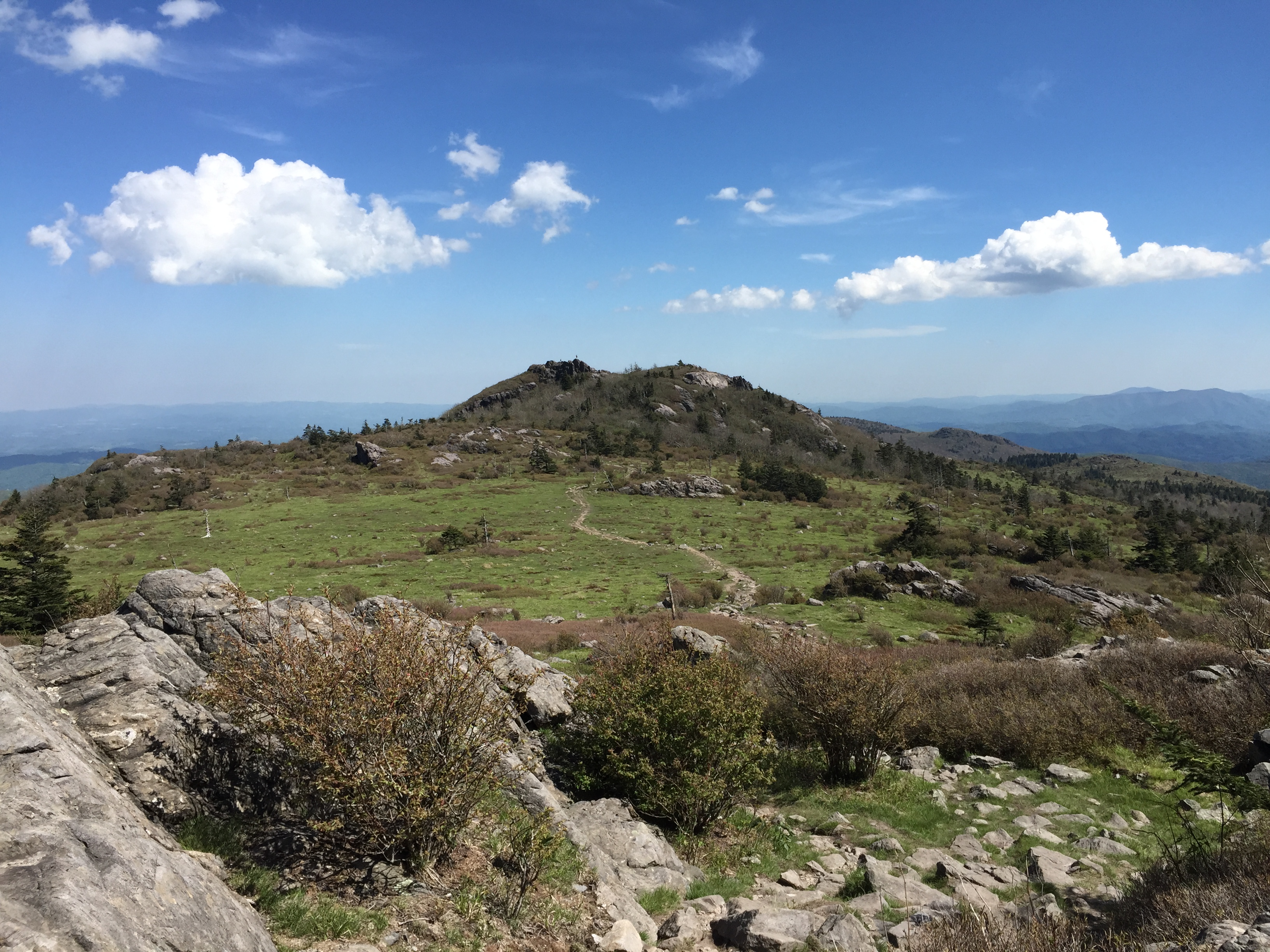 View southeast along Wilburn Ridge from the Appalachian Trail just south of the summit of Pine Mountain, within the Mount Rogers National Recreation Area in Grayson County, Virginia